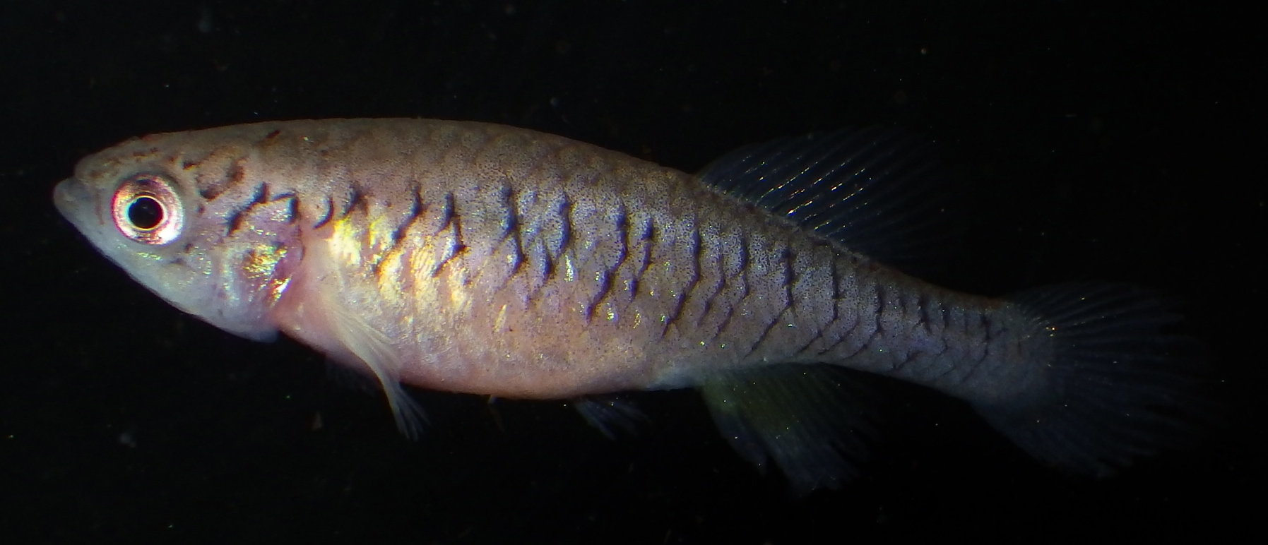 Female N. kilomberoensis Ifakara TAN 95-4